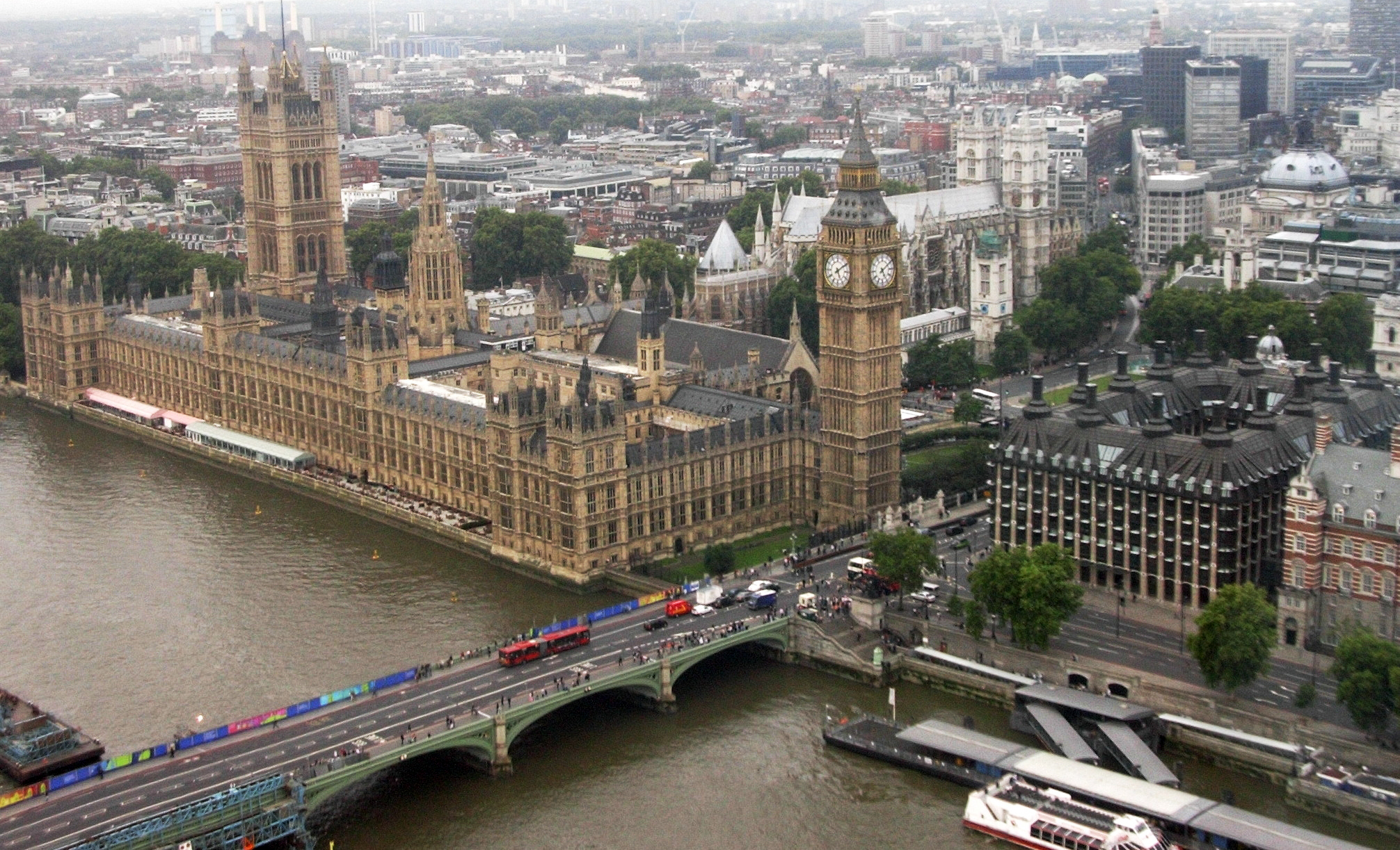 Westminster Palace (House of British Parliament) and Westminster Abbey